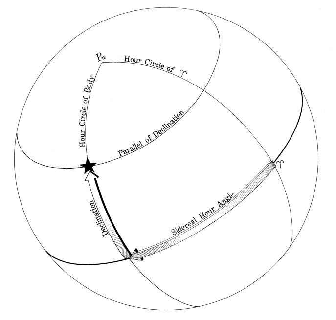 figure 1524b of APN2002